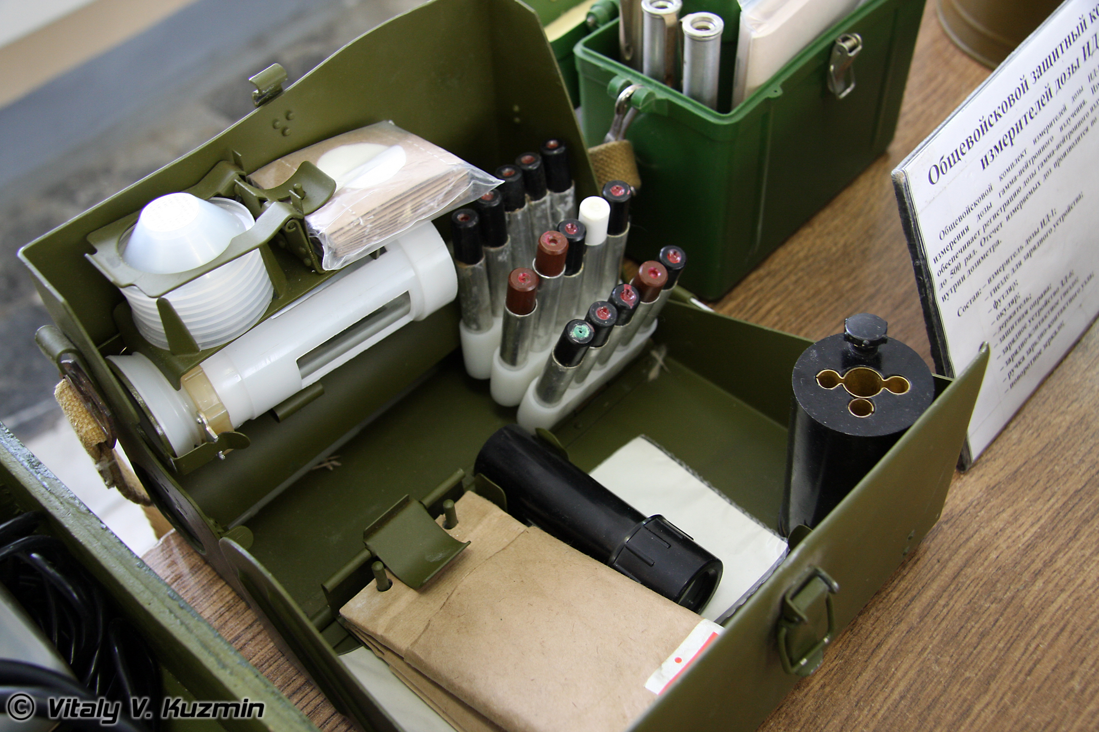 Chemical reconnaissance device VPKhR